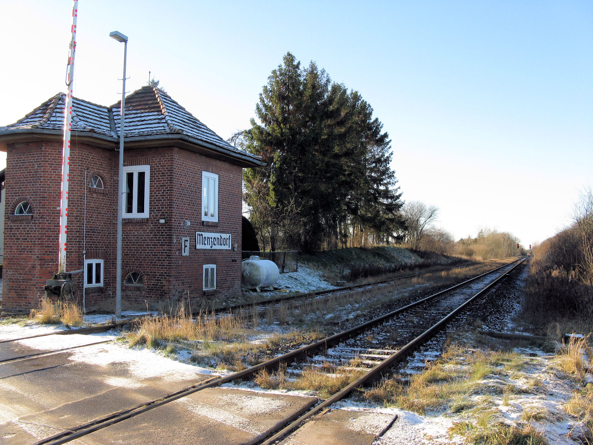 Railroad crossing and signal box in Menzendorf, Mecklenburg-Vorpommern, Germany